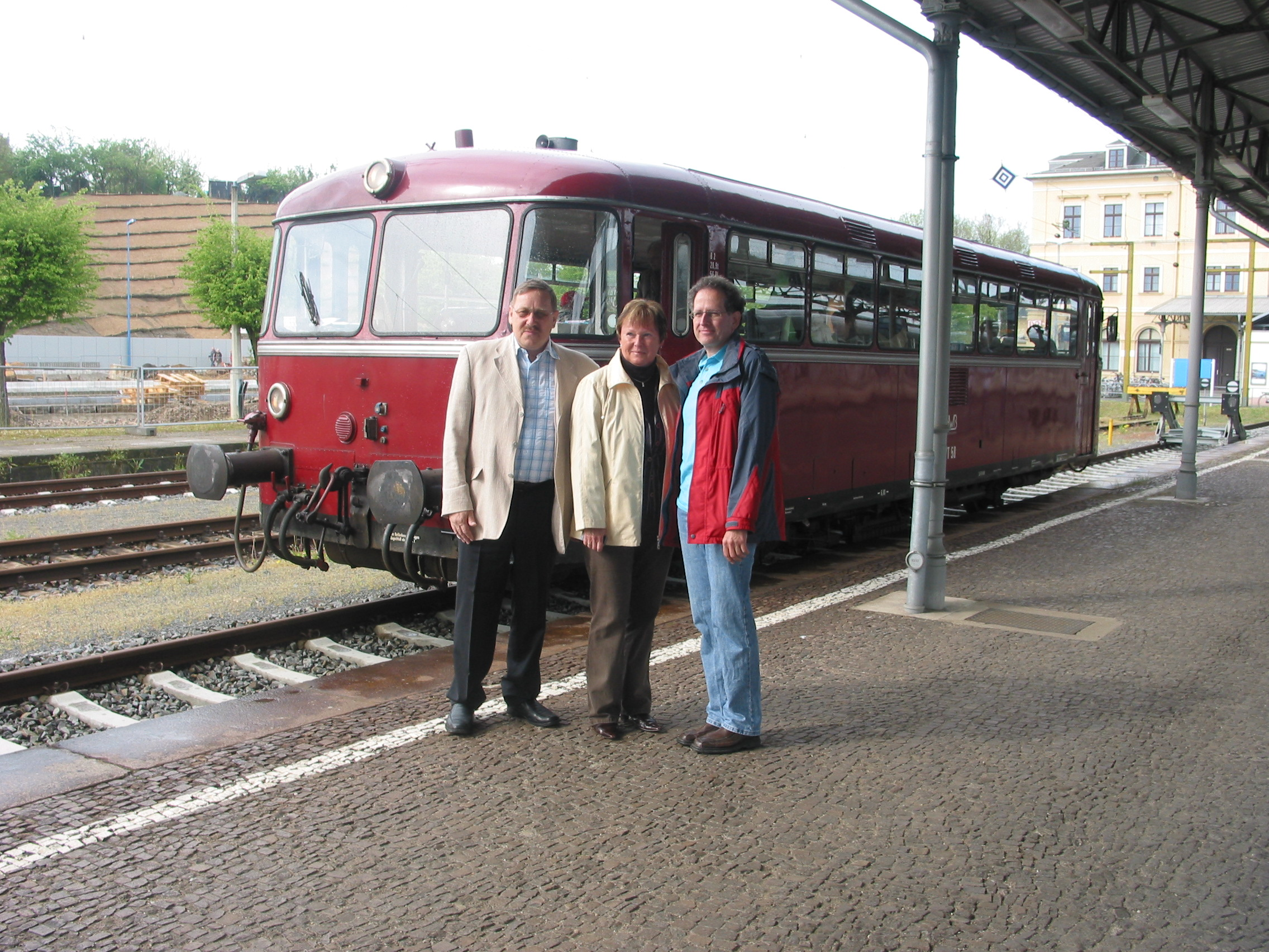 Opening tour of the Elbe-Spreewald-Kurier at May 1st 2008 in Riesa with Uerdinger railbus VT 58 of the Hochwaldbahn: Gerhard J. Curth, president of Deutschen Regionaleisenbahn GmbH (DRE), Hannelore Lenhart, vice-major of Falkenberg (Elster), Werner Nüse of Riesa (from left)